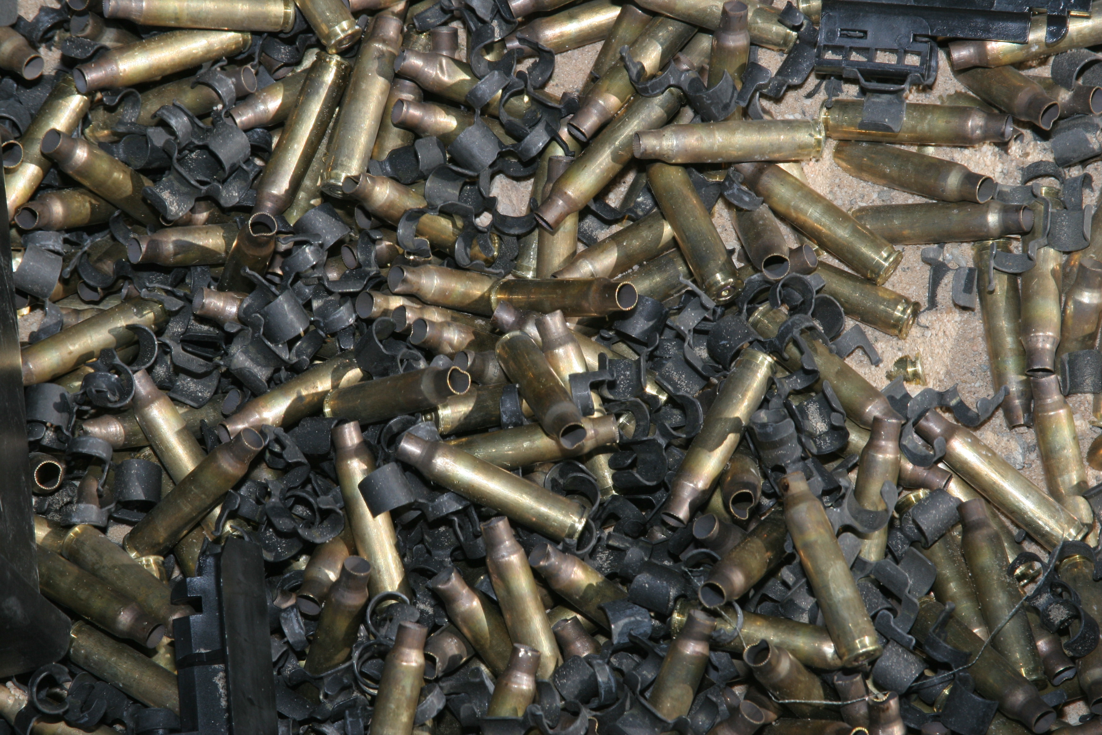 A pile of brass bullet shells and metal links are what is left on the ground after Marines from Headquarters Company, 7th Marine Regiment, spent the afternoon of Nov. 30 firing a barrage of live rounds at targets at the Combat Center's Range 103. The company has been training with the M249 Squad Automatic Weapon for their upcoming deployment to Iraq.